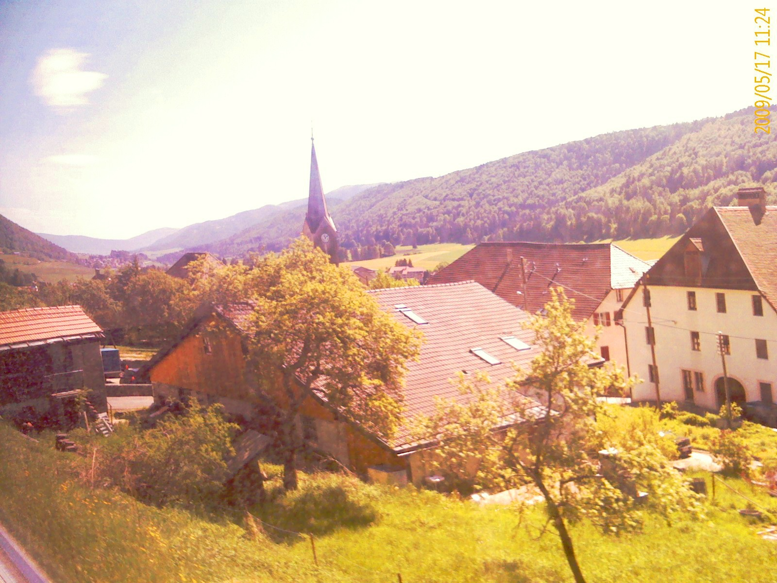 Renan, canton of Bern, SwitzerlandEsperanto: Renan, Kantono Berno, Svislando